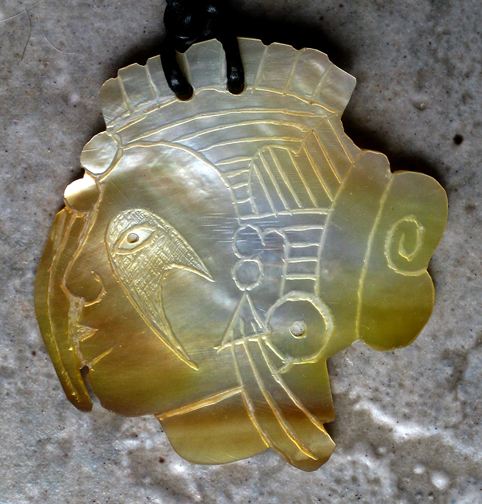 Contemporary gorget, possibly mother-of-pearl, by Bennie Pokemire (Eastern Band Cherokee), North Carolina